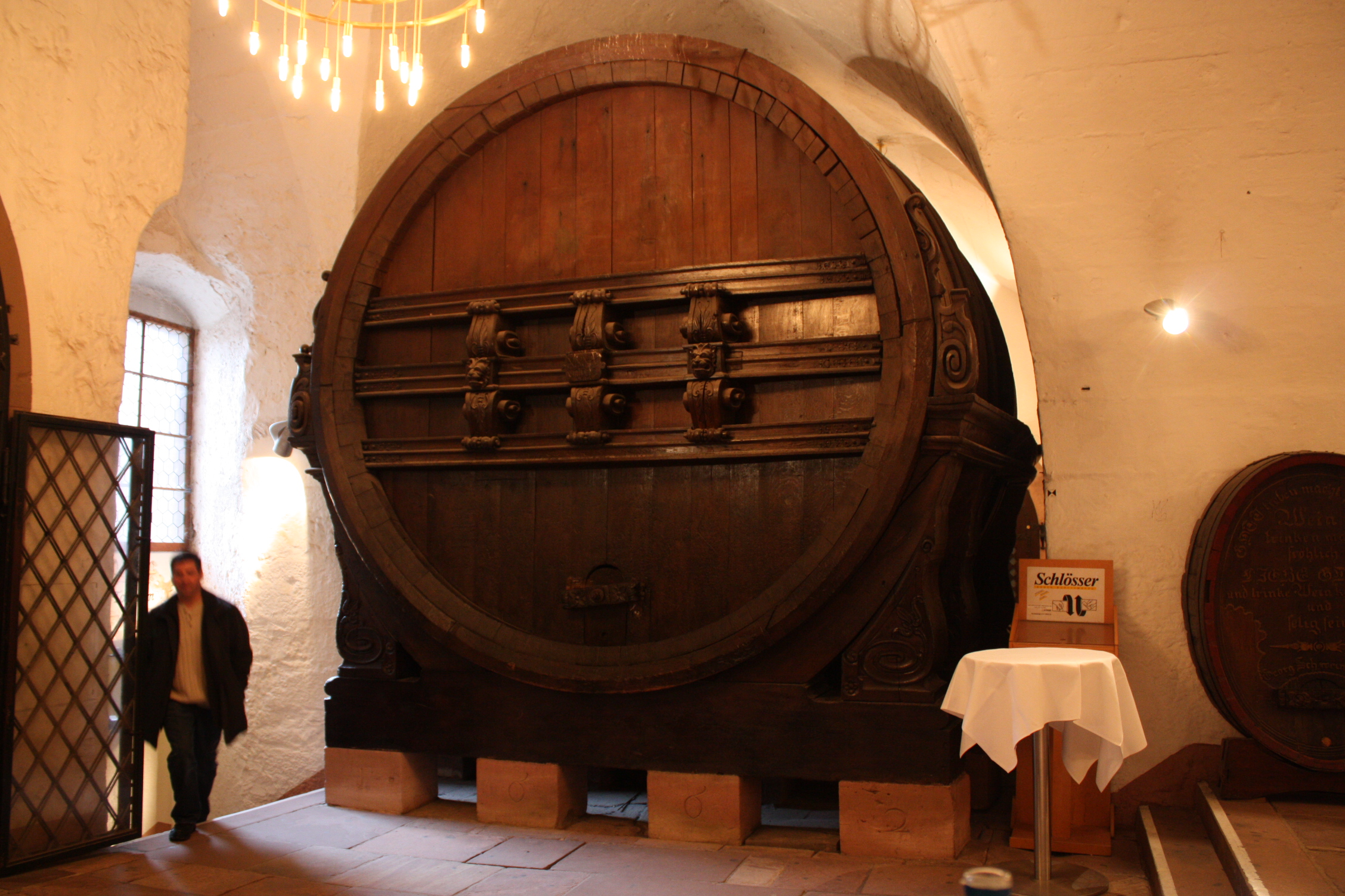 Wine barrel at the cellar of Heidelberg castle